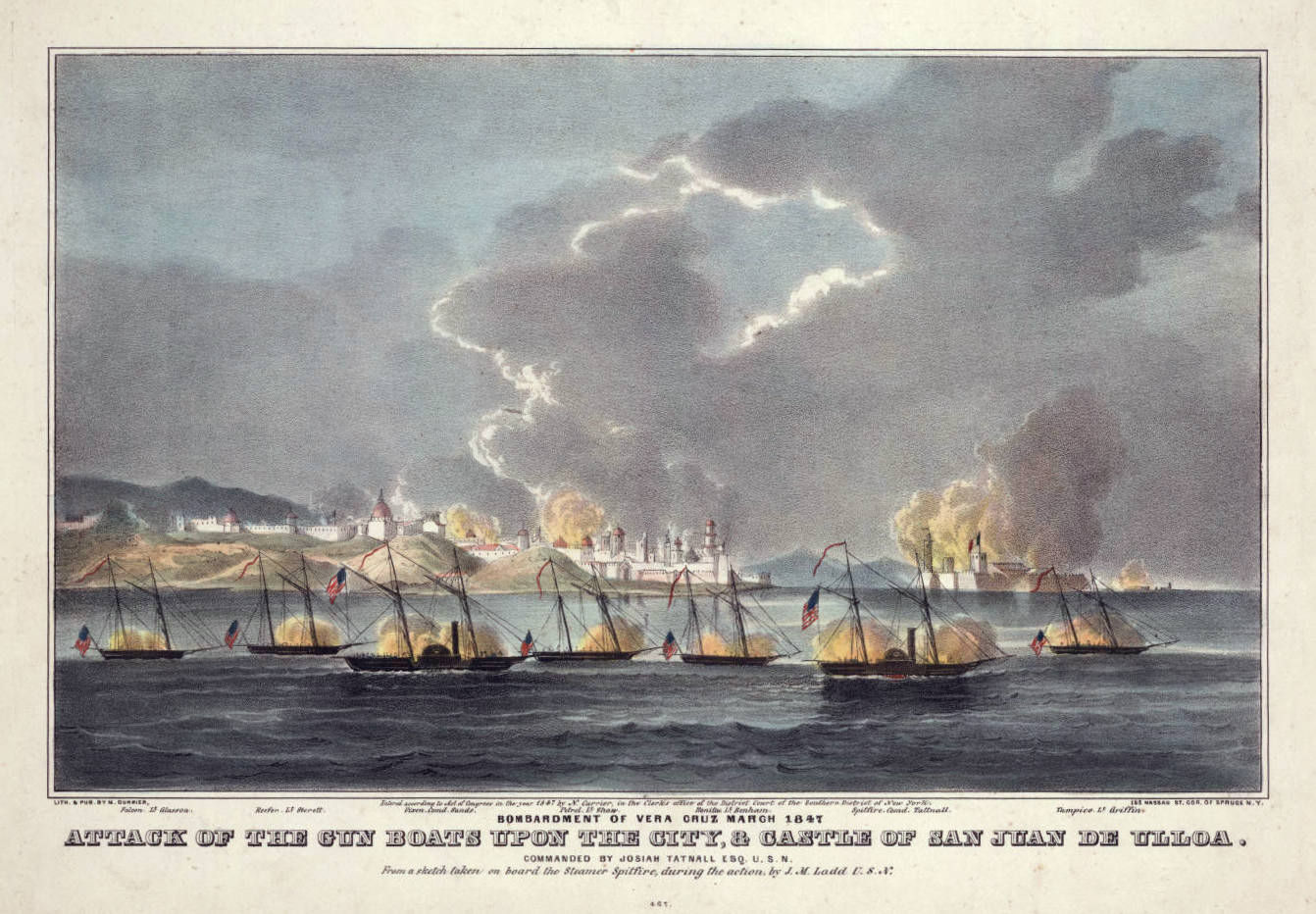 lithograph by N. Currier titled Attack of the Gun Boats upon the City, & Castle of San Juan de Ulloa in Yale Collection of Western Americana, Beinecke Rare Book and Manuscript Library, Bibliographic Record Number 2016016